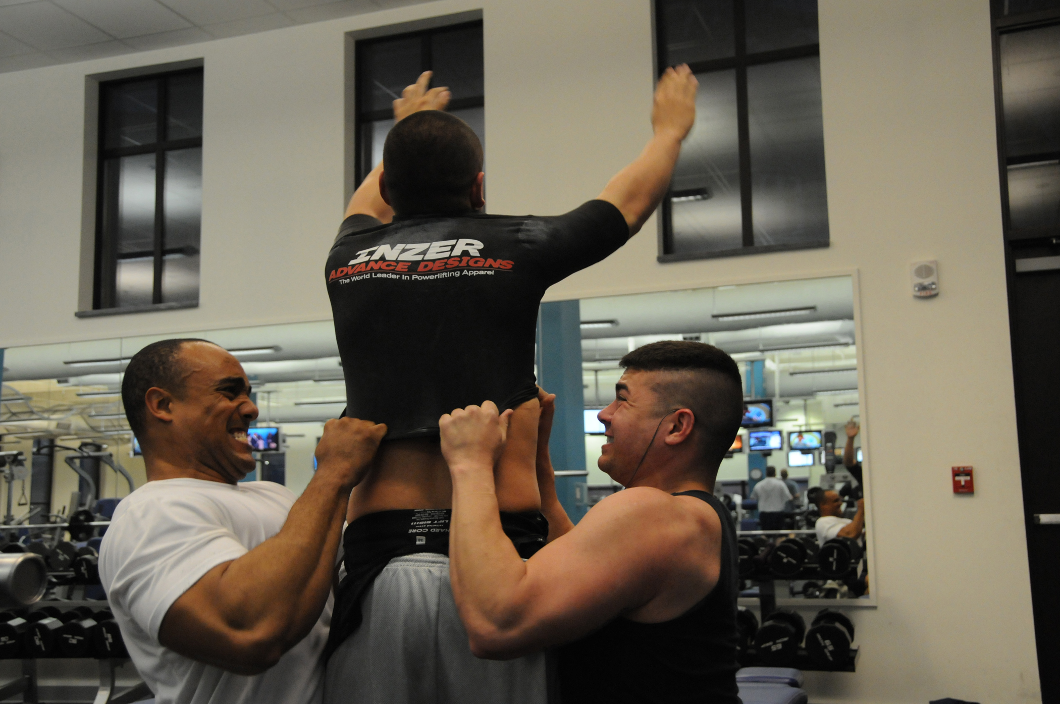 Staff Sgt. Alberto Flores and Staff Sgt. Jeremiah Celis, both of the 65th Civil Engineer Squadron, assist Airman 1st Class Thomas Harkins, 65th Operations Support Squadron in putting on an Inzer bench shirt at the Chase Fitness Center on Lajes Field, Azores, Portugal on April 7, 2009. The Inzer bench shirt is supportive gear that keeps the shoulders and chest tight to aid in the heavier bench presses. Sergeant Celis coached and mentored Airman Harkins, and they both brought home gold medals from the 2009 Military Nationals Power Lifting Competition in Texas March 14. Presently, they are both preparing for the USFE(United States Forces Europe) Powerlifting Championship that is scheduled to be held on the 18th of this month at the Landstuhl Fitness Center. (US Air Force photo by Tech Sgt. Rebecca F. Corey)